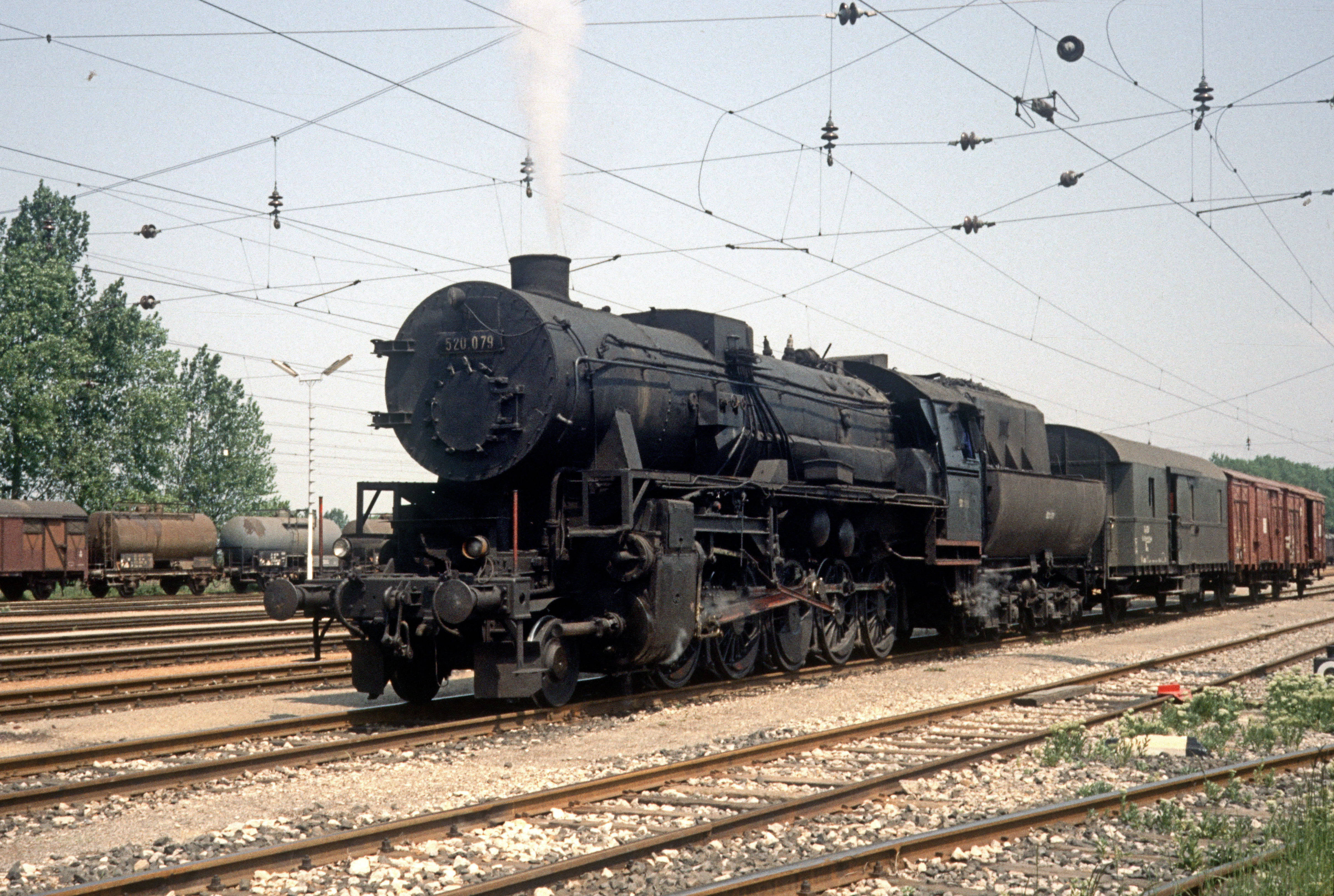 Gysev 520.079 shunting in Ebenfurth.